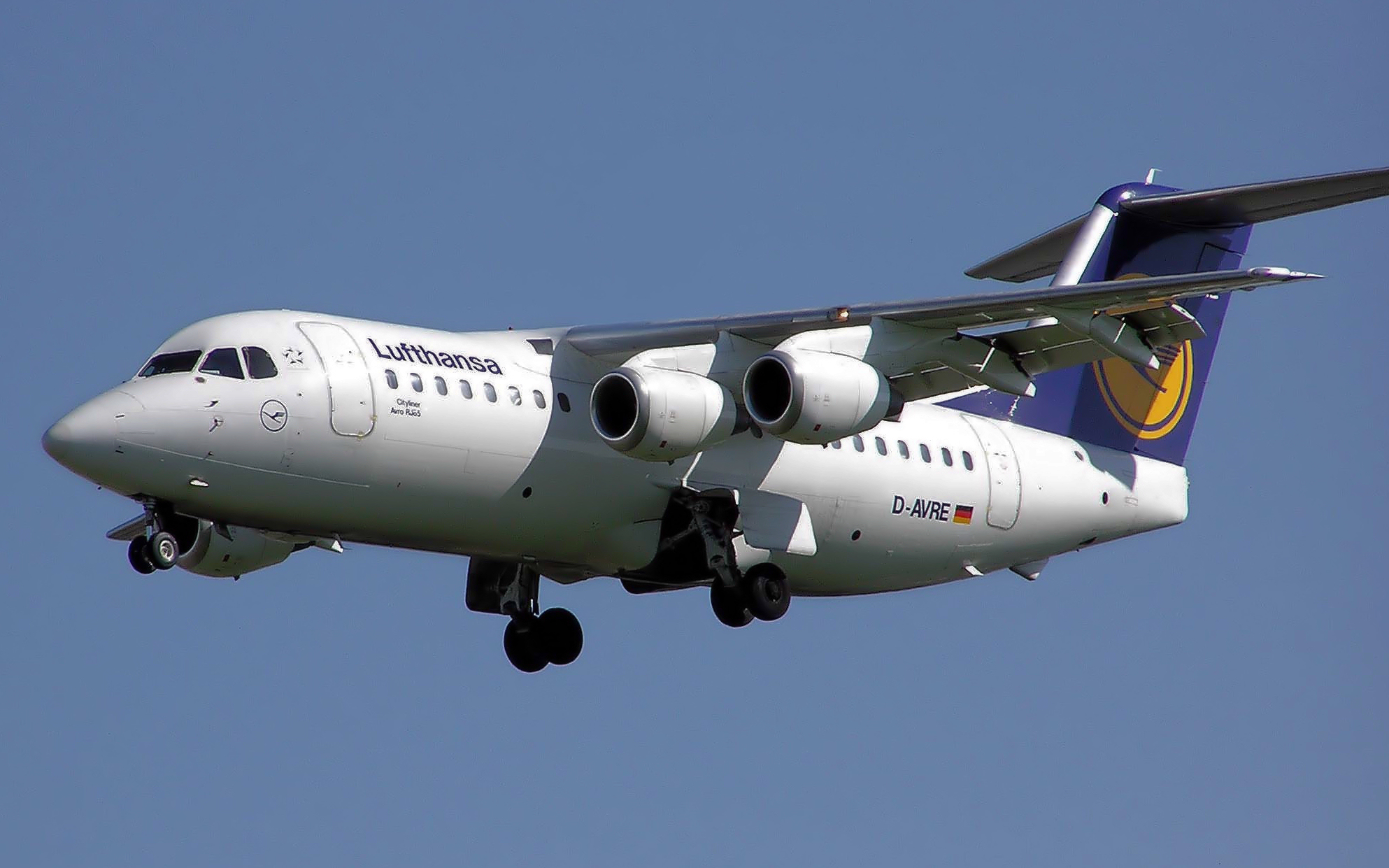 British Aerospace Avro RJ85 of the German airline Lufthansa (D-AVRE) on the approach to London (Heathrow) Airport.